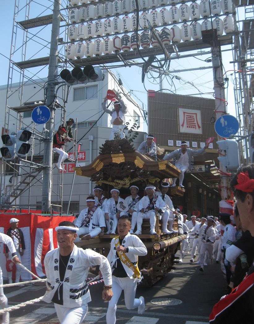 Otori Danjiri Festival in Sakai, Osaka, Japan